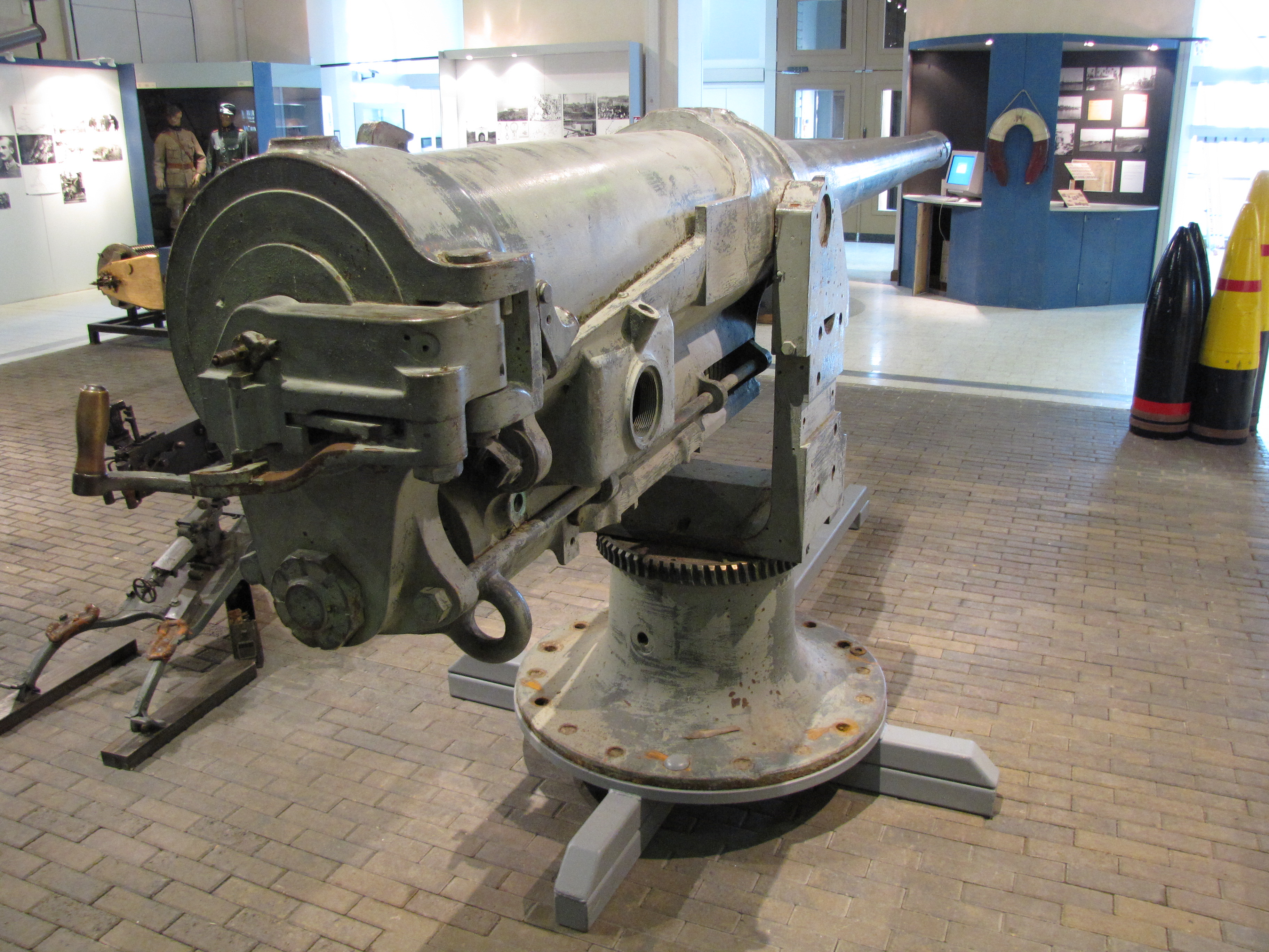 QF 4.7"/40 (12 cm) Mark IV gun in Maneesi Military Museum. This gun was built in Kure, Japan under license and later sold to Russian Empire. Taken over by Finland and given the designation 120/41 A (120 mm, 41 caliber model Armstrong). This gun was used in the Järisevä coastal fort where it supported the Finnish defences at Mannerheim Line and was damaged during Winter War. See also : File:Maneesi 120 41 A side 2.JPG : right side view File:Maneesi 120 41 A side.JPG : left side breech view File:Maneesi 120 41 A front.JPG : muzzle view File:Maneesi 120 41 A barrel.JPG : right side muzzle close-up view File:Maneesi 120 41 A information plaque.JPG : information plaque File:Maneesi 120 41 A memorial plaque.JPG : information plaque